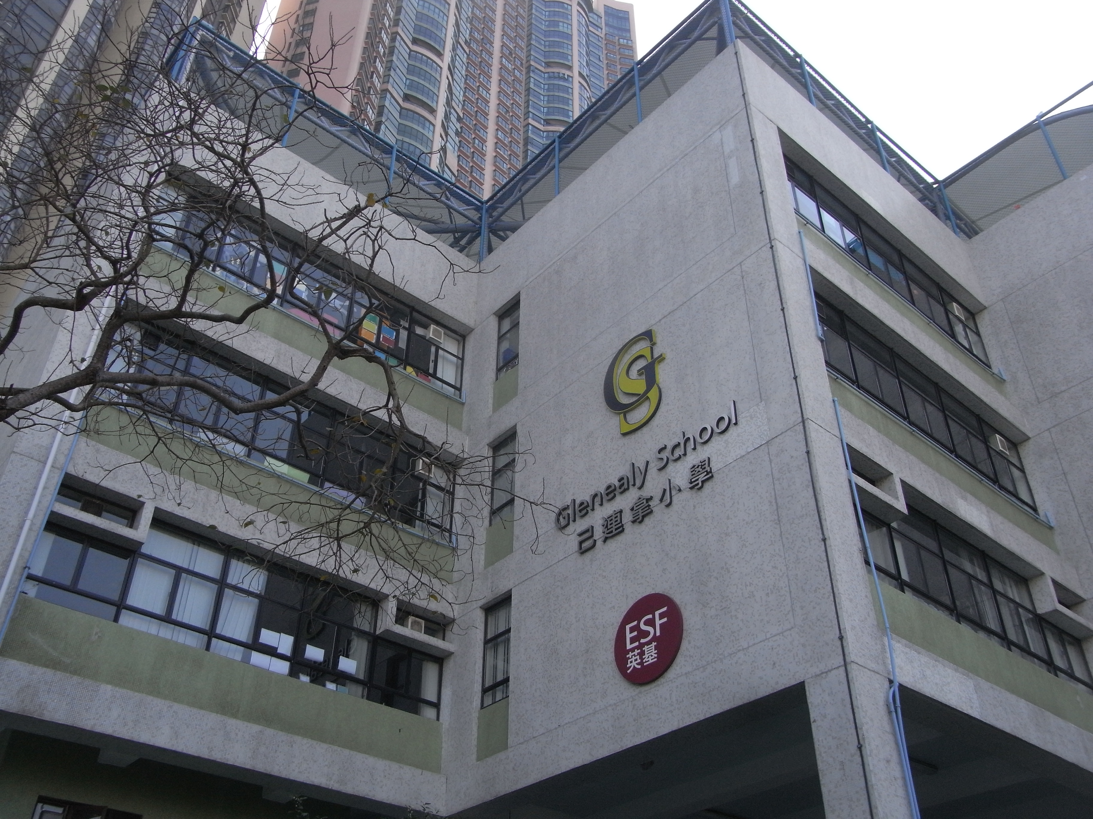 香港島香雪道 己連拿利小學